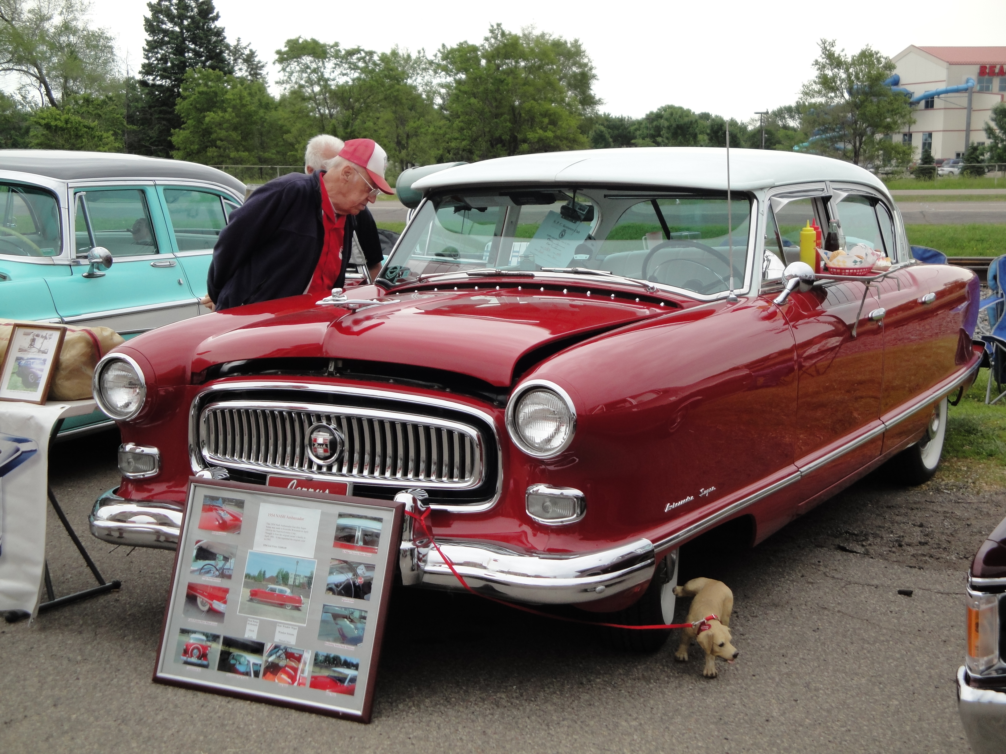 W.P.C. Restorers Club 10,000 Lakes Region Car Show June 12, 2011 Wagner's Drive in